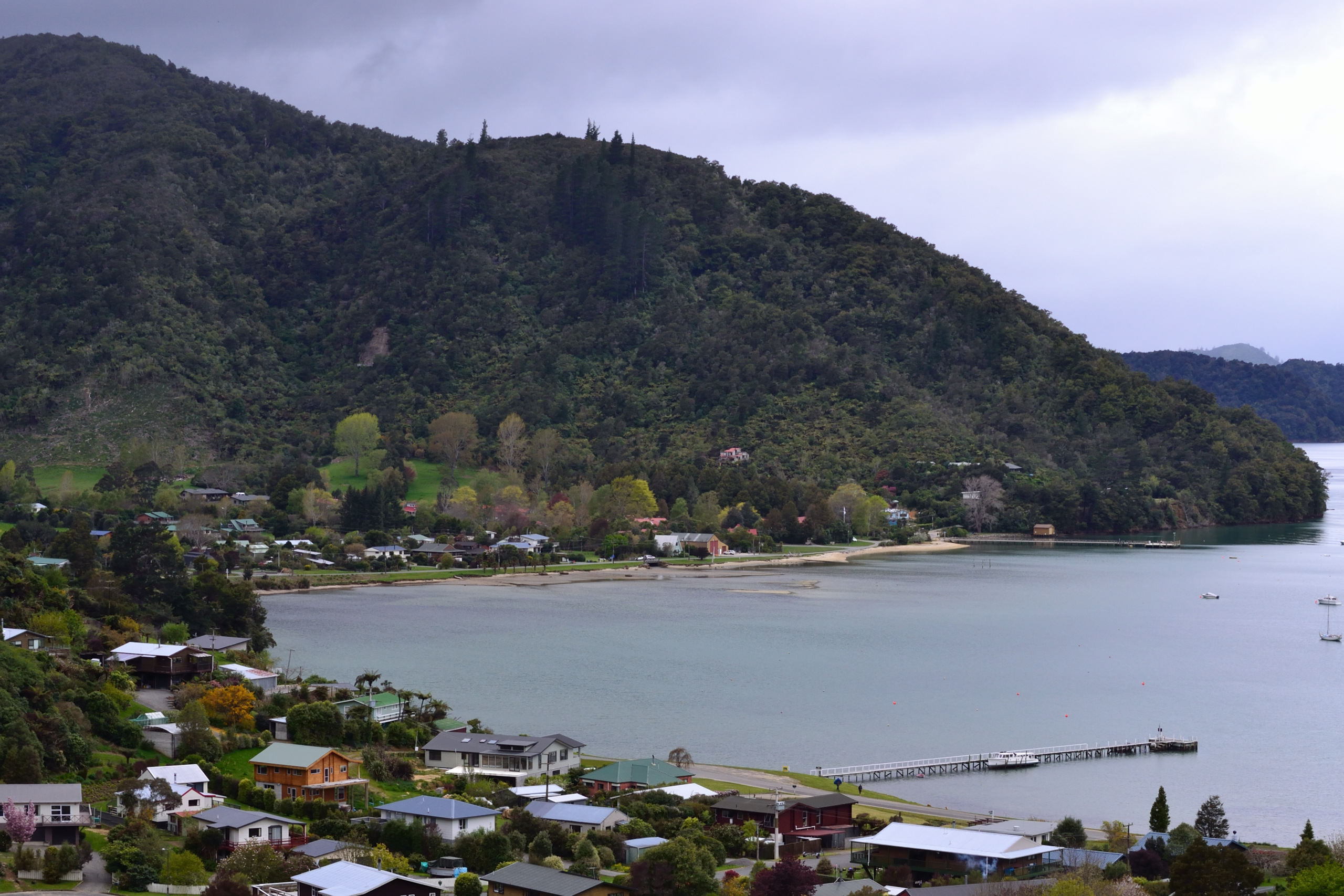 Anakiwa as seen from the south-west, above Tirimoana.